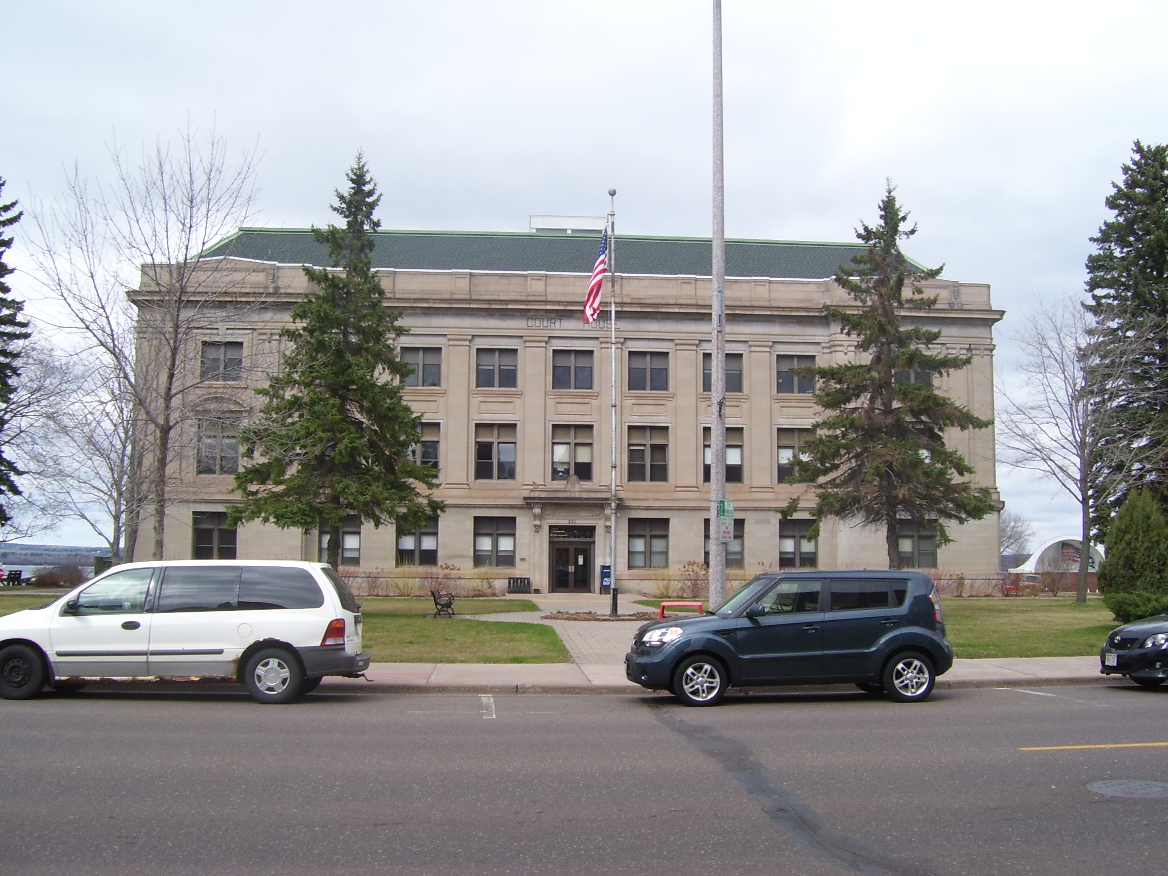 Exterior of the Ashland County Courthouse, in Ashland, Wisconsin, United States.